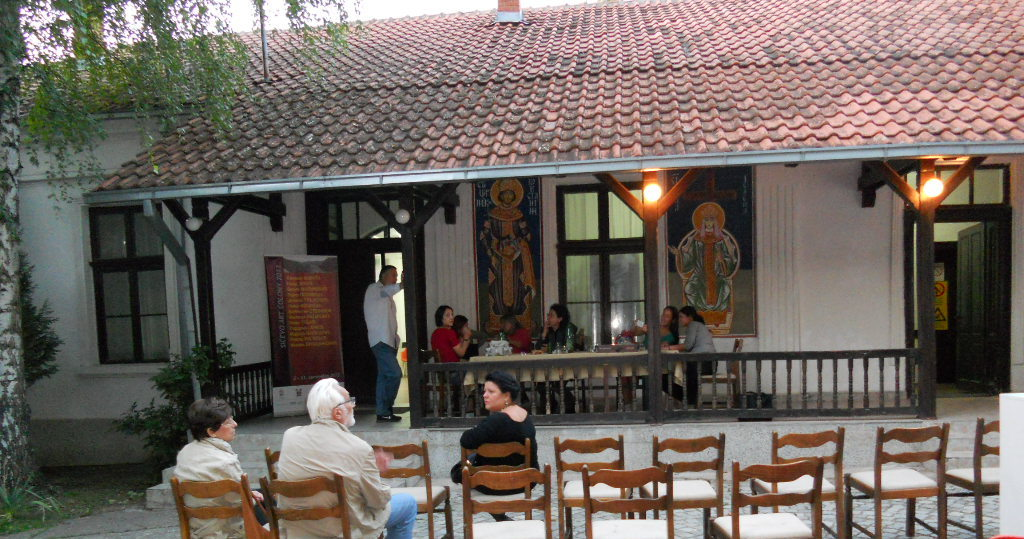 Sićevo Art Colony, Sićevo printmarking Workshop